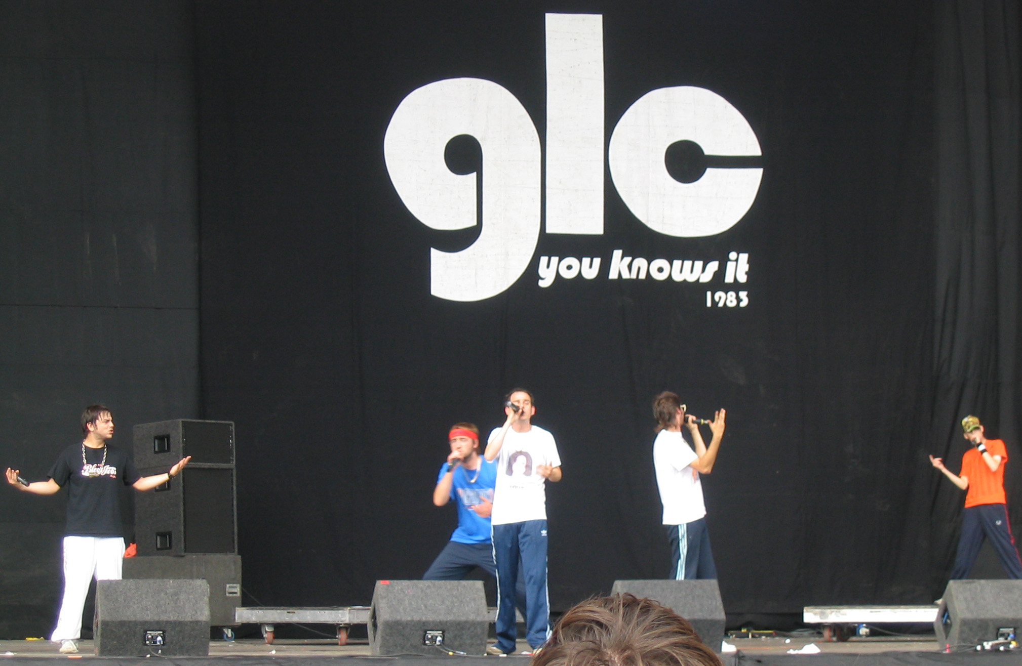 Goldie Lookin' Chain playing at Leeds Festival 2005.